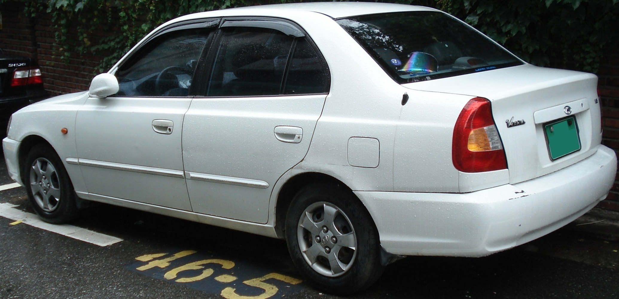 Hyundai Verna